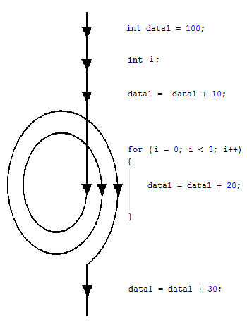 For loop illustration, from i=0 to i=2, resulting in data1=200